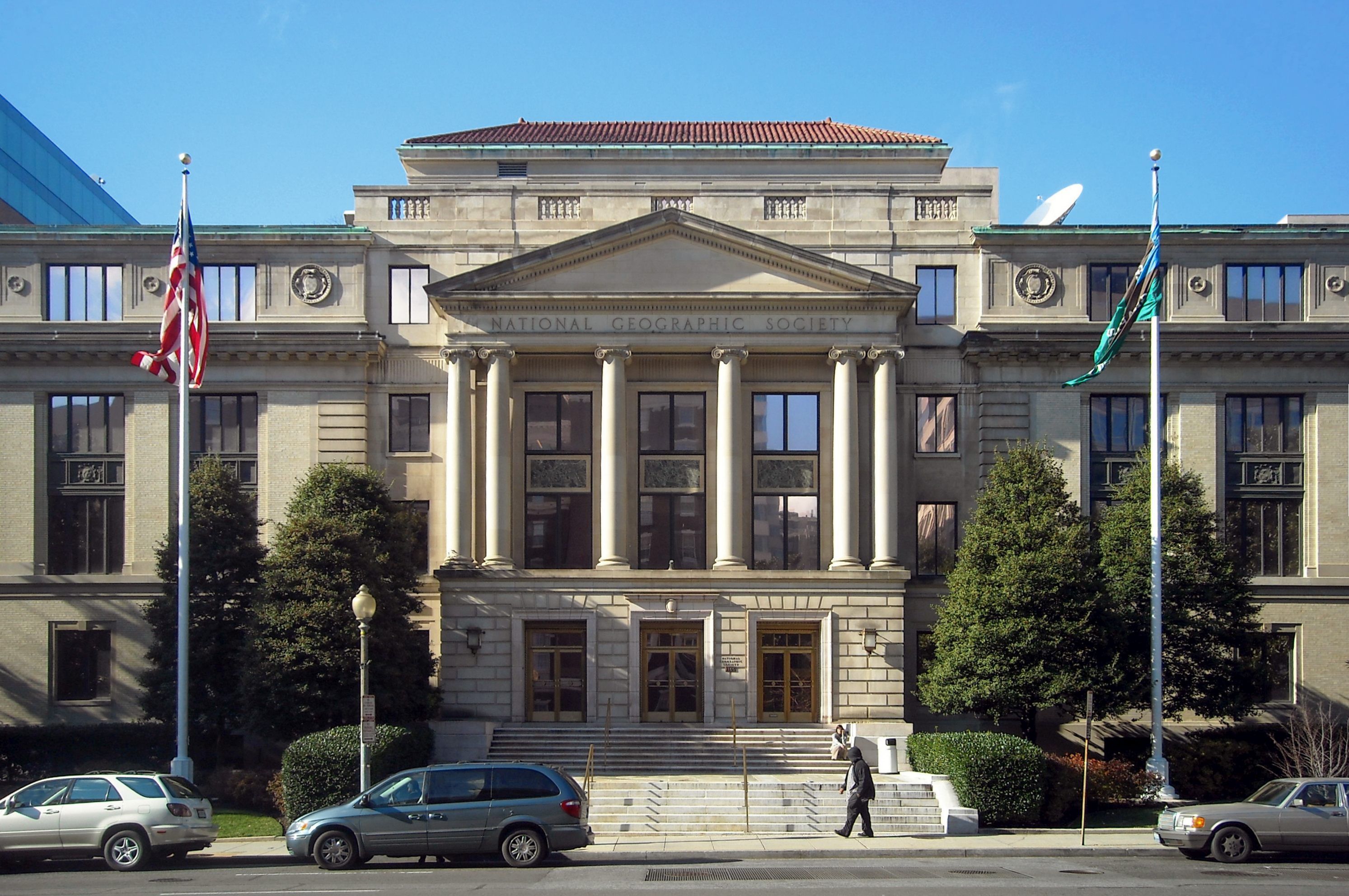 The National Geographic Society Administration Building, home of the Grosvenor Auditorium, located at 1600 M Street, NW in Downtown Washington, D.C. The Classical Revival building was designed by local architect Arthur B. Heaton in 1932.